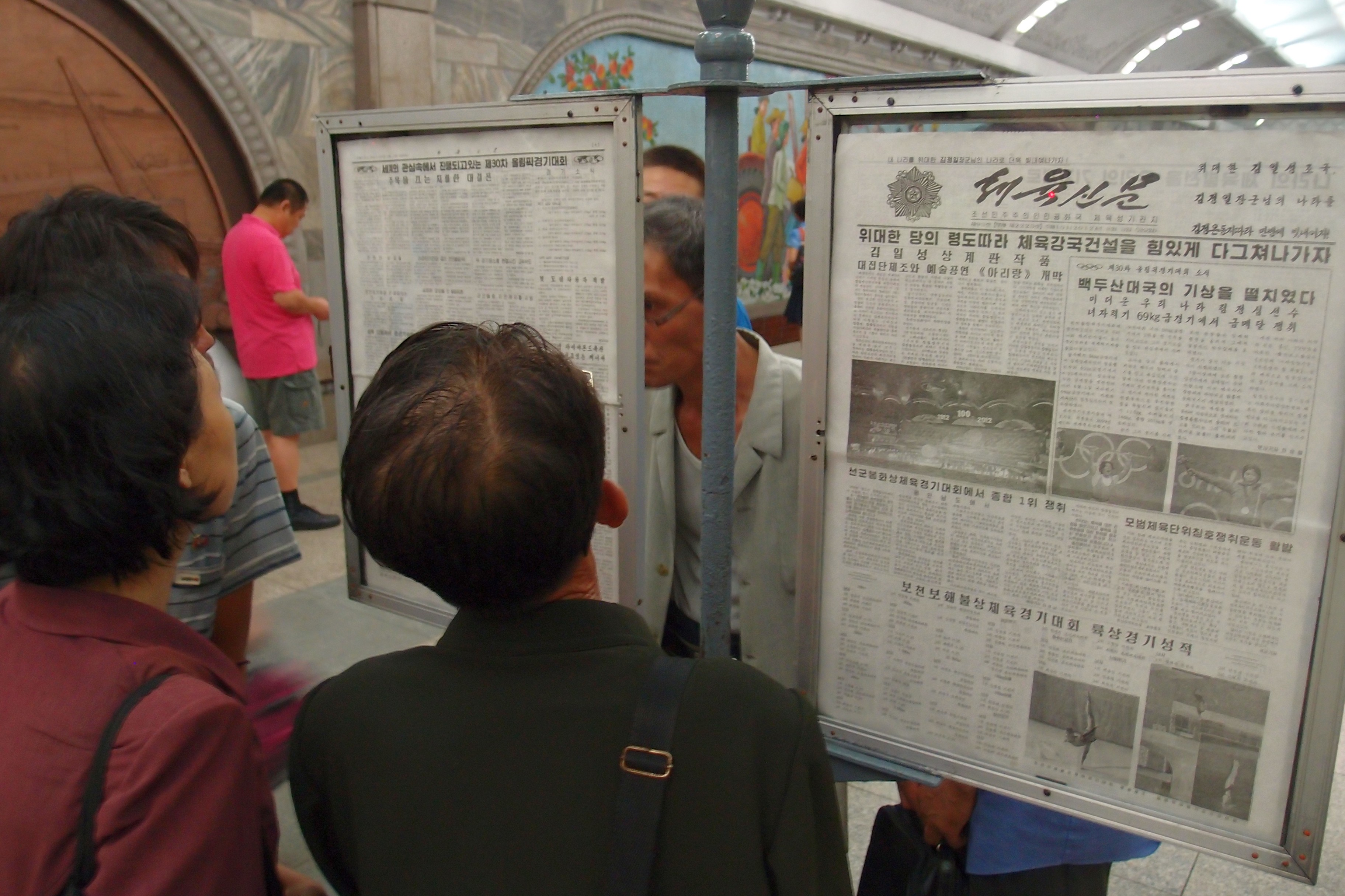 People reading the newspaper for free at a public newspaper reading stand on the platform of a metro station in Pyongyang, North Korea